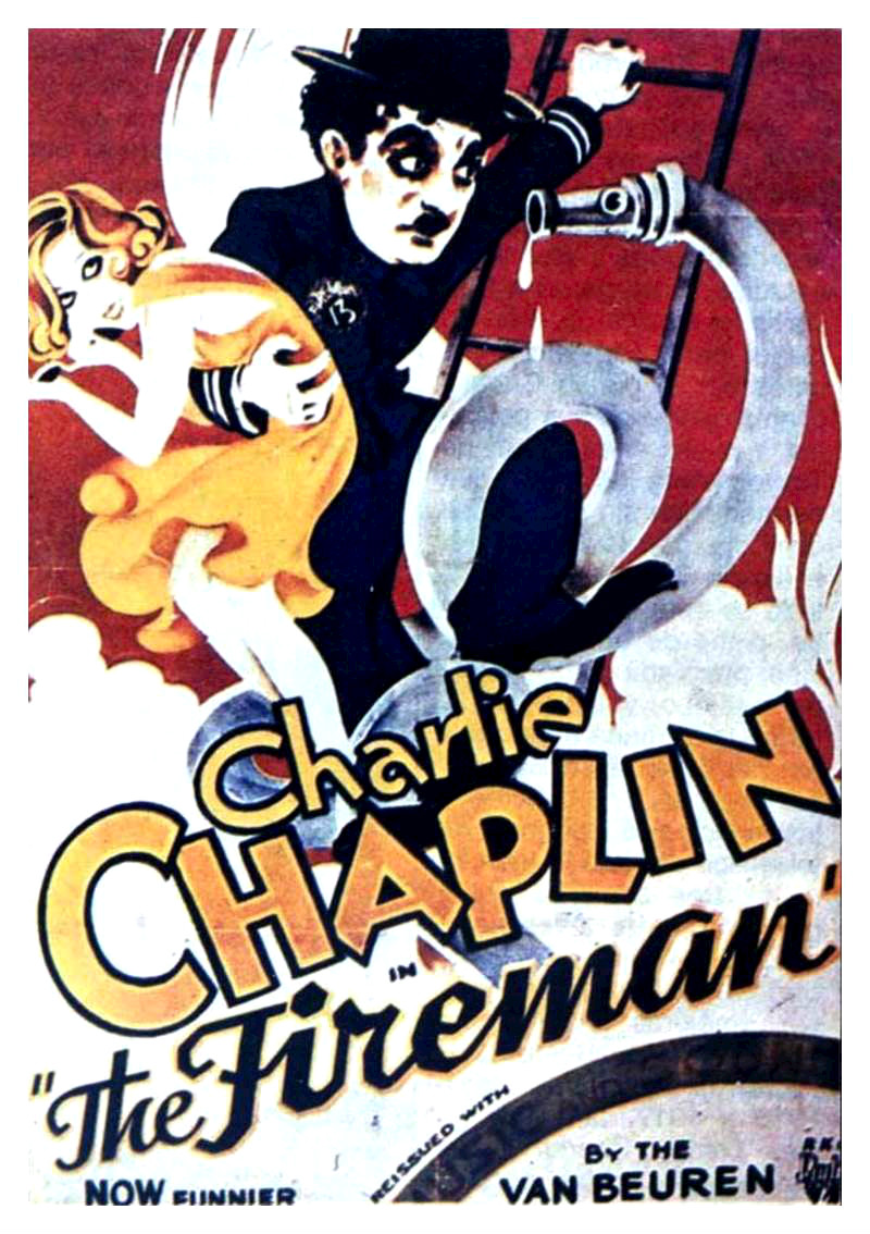 Poster for The Fireman (film) (1916).